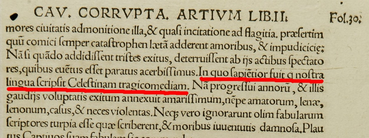 Portion of Juan Luis Vives Book (1531) showing Nostra lingua scripsit